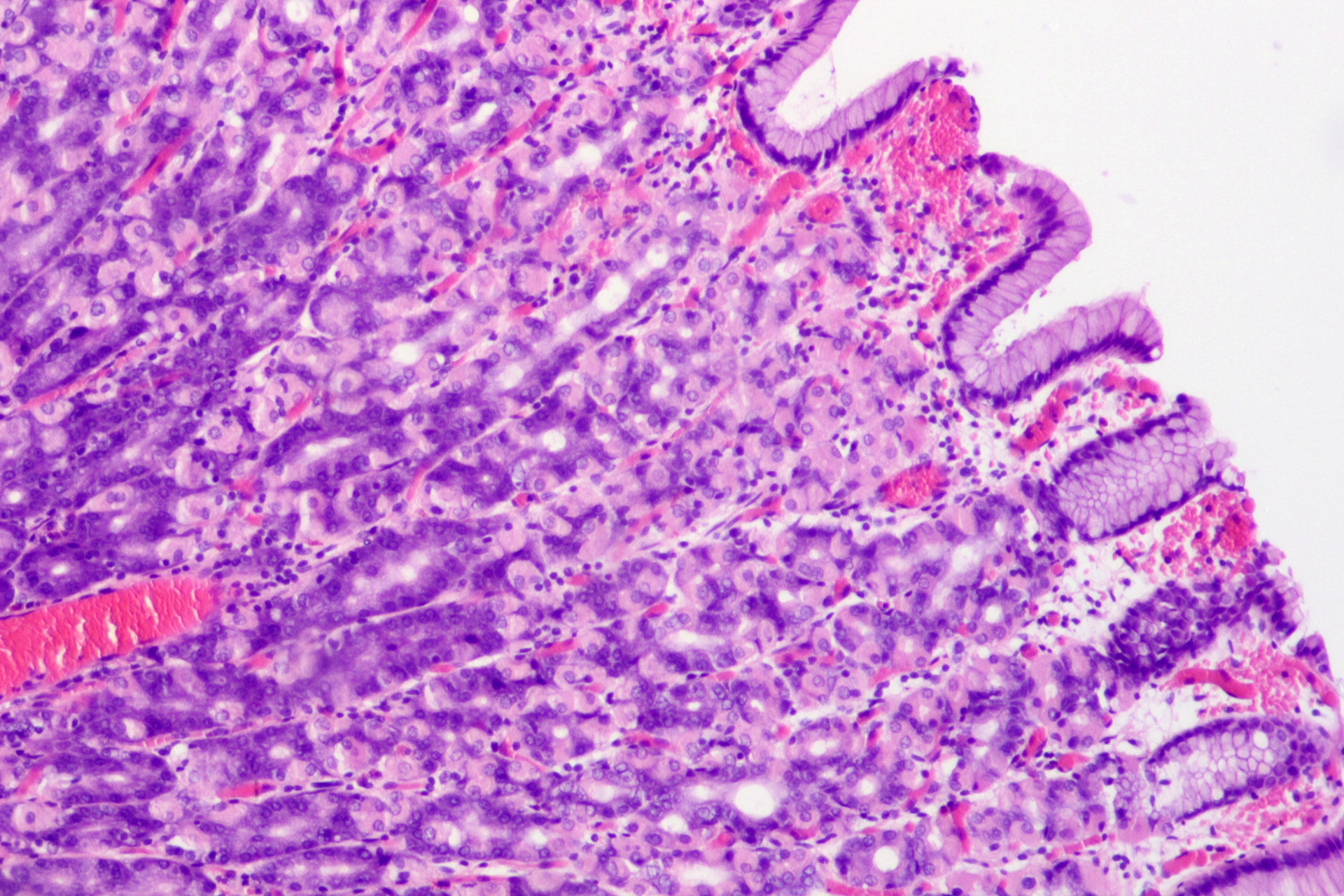 Meckel's diverticulum with ectopic corpus-type gastric mucosa, resected after perforation.